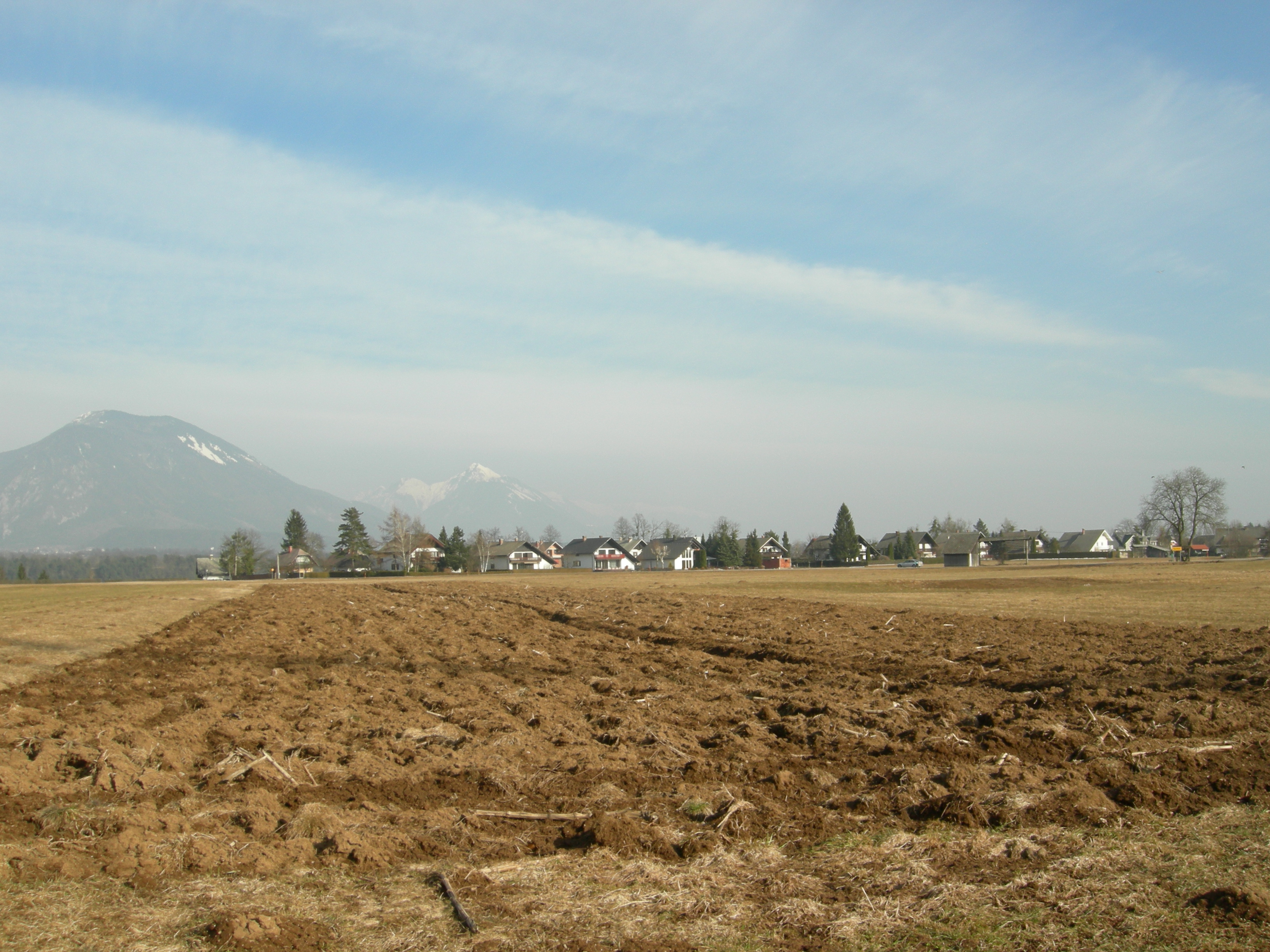 Koritno, near Bled, village in Slovenia.